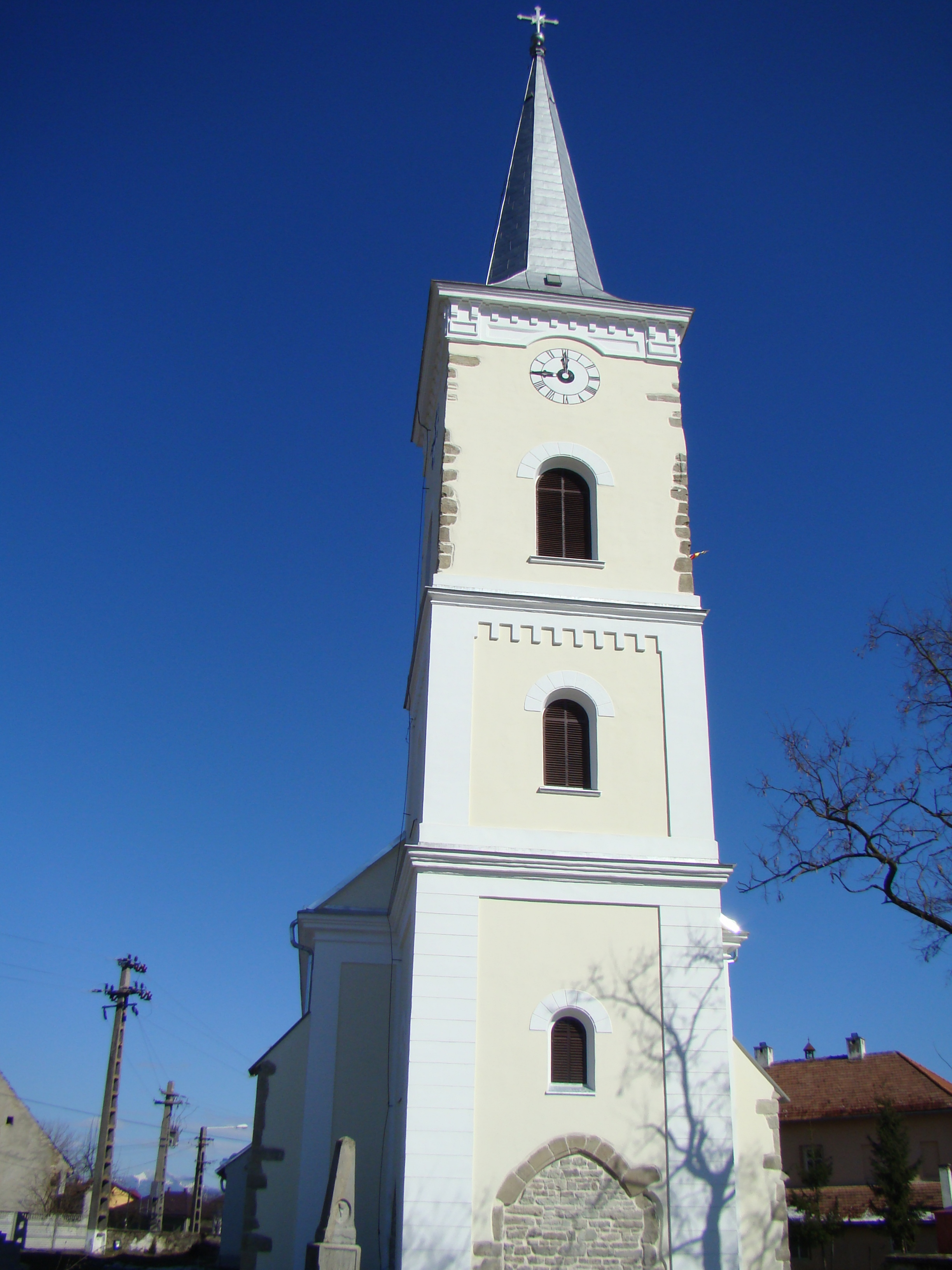 Church of the Saints Archangels in Unirea, Bistrița-Năsăud county, Romania